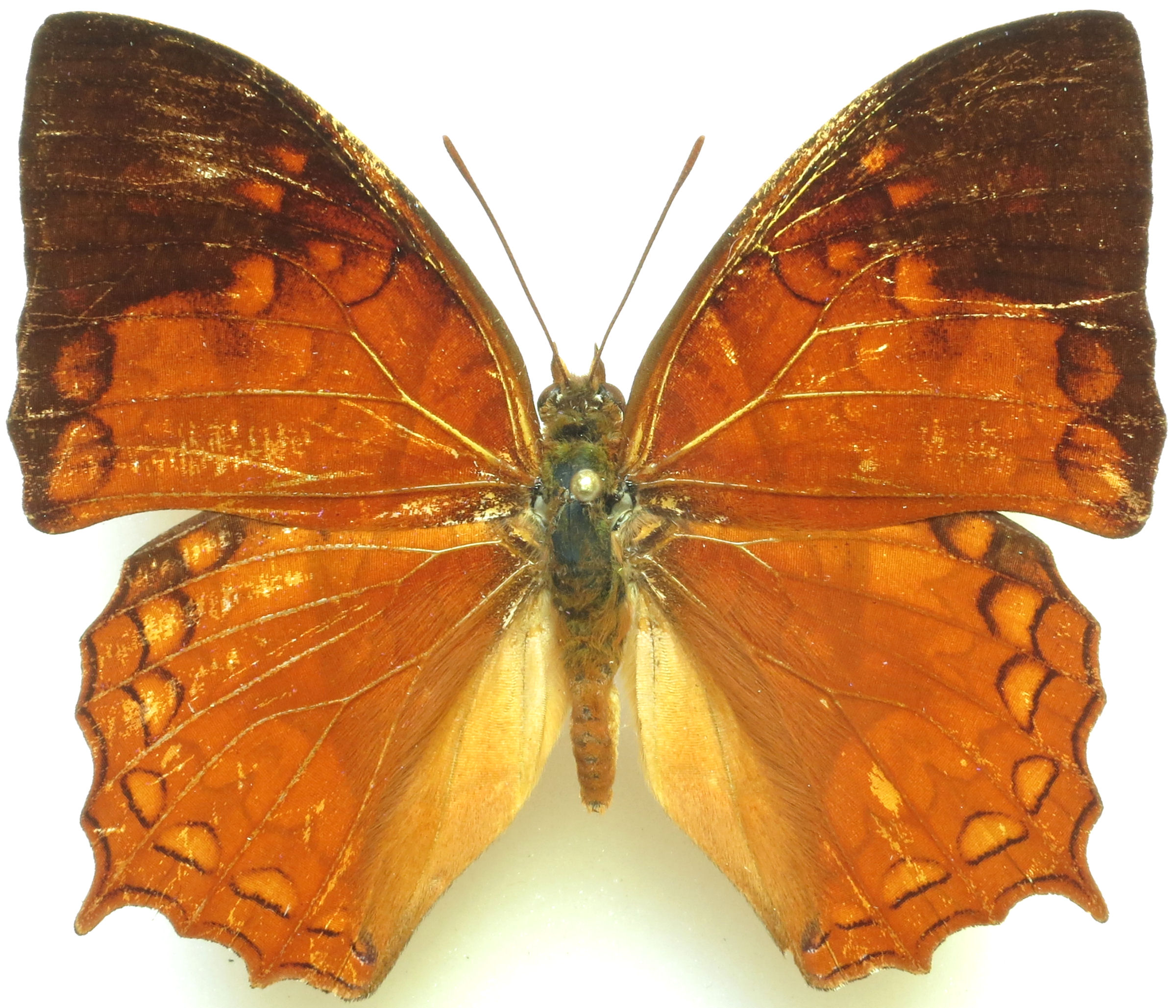 Common orange charaxes from CAR – Dorsal view.